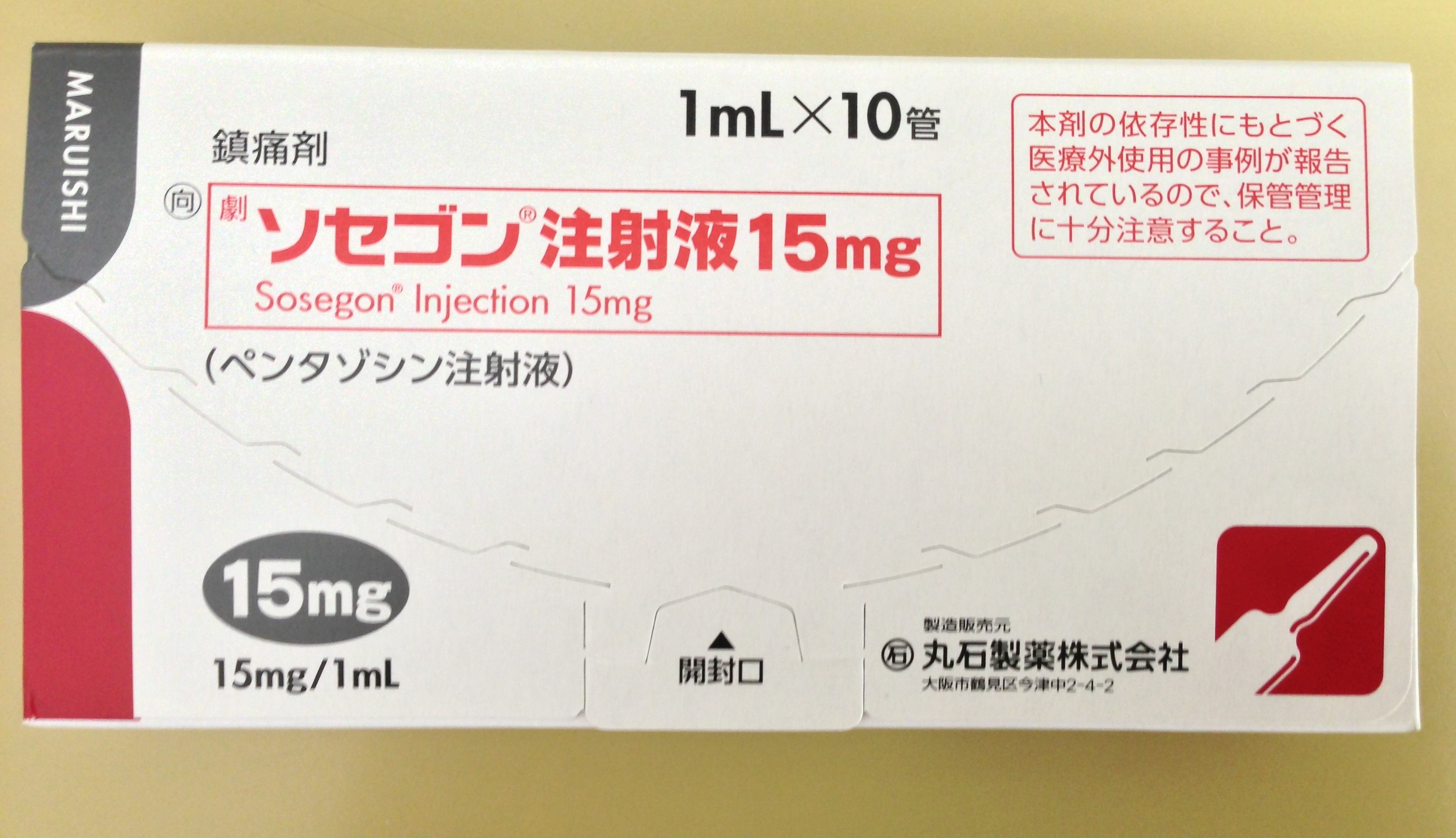 Pentazocine injection - JAPAN